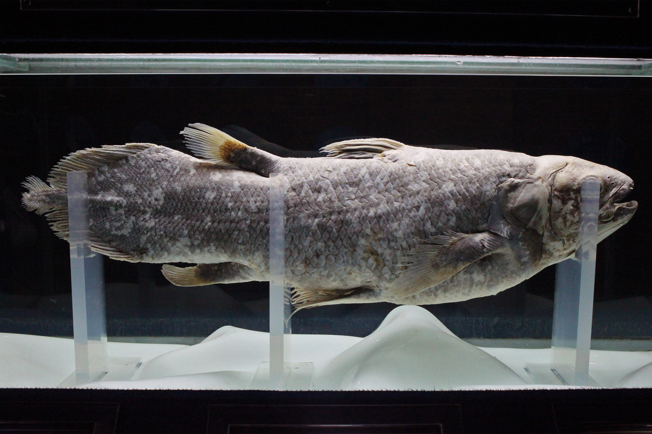 Preserved specimen of Coelacanth (Latimeria sp.) at Sea World, Taman Impian Jaya Ancol, Jakarta, Indonesia.